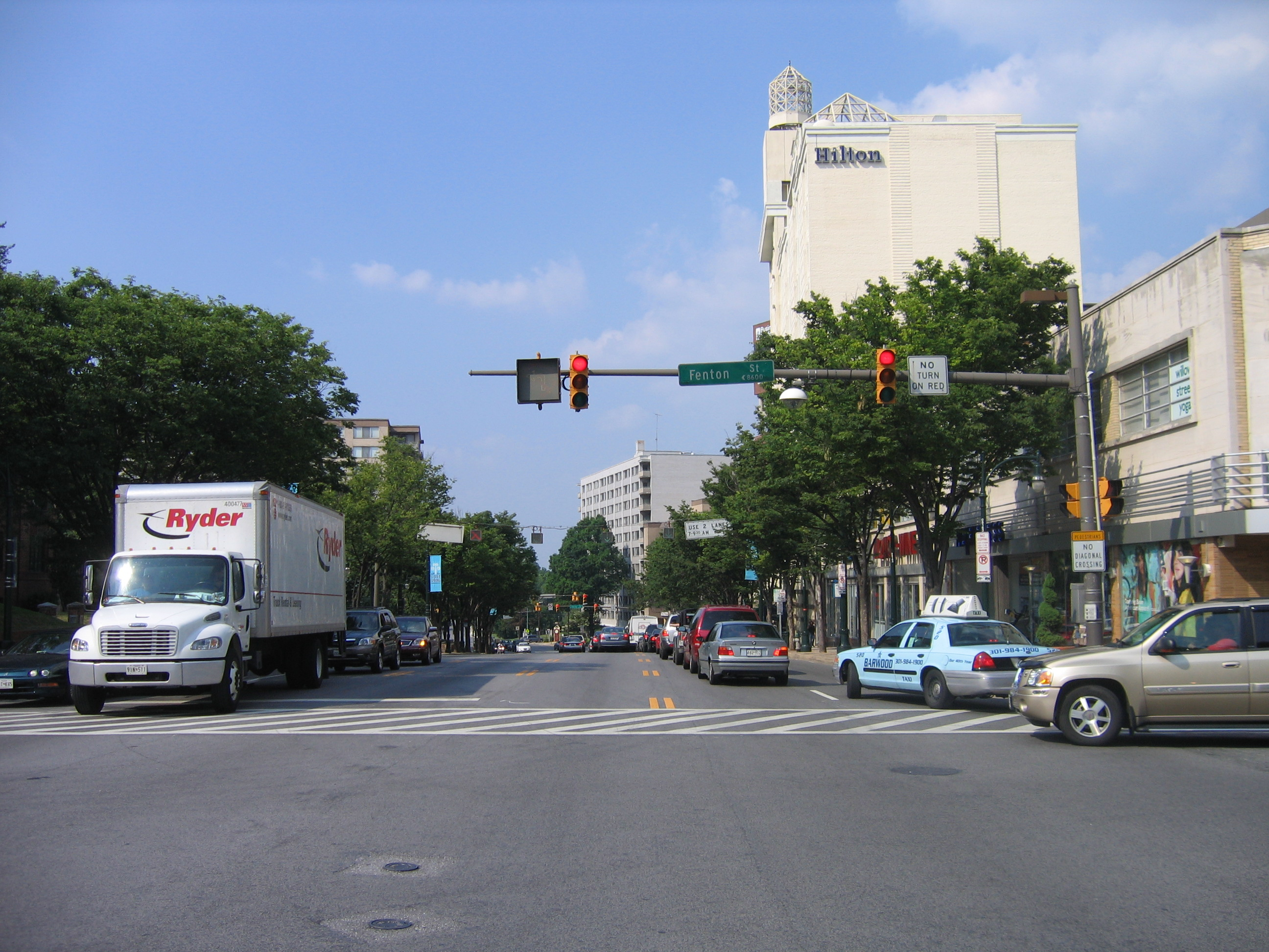 US 29 (Colesville Road) at Fenton Street, Silver Spring, MD, USA